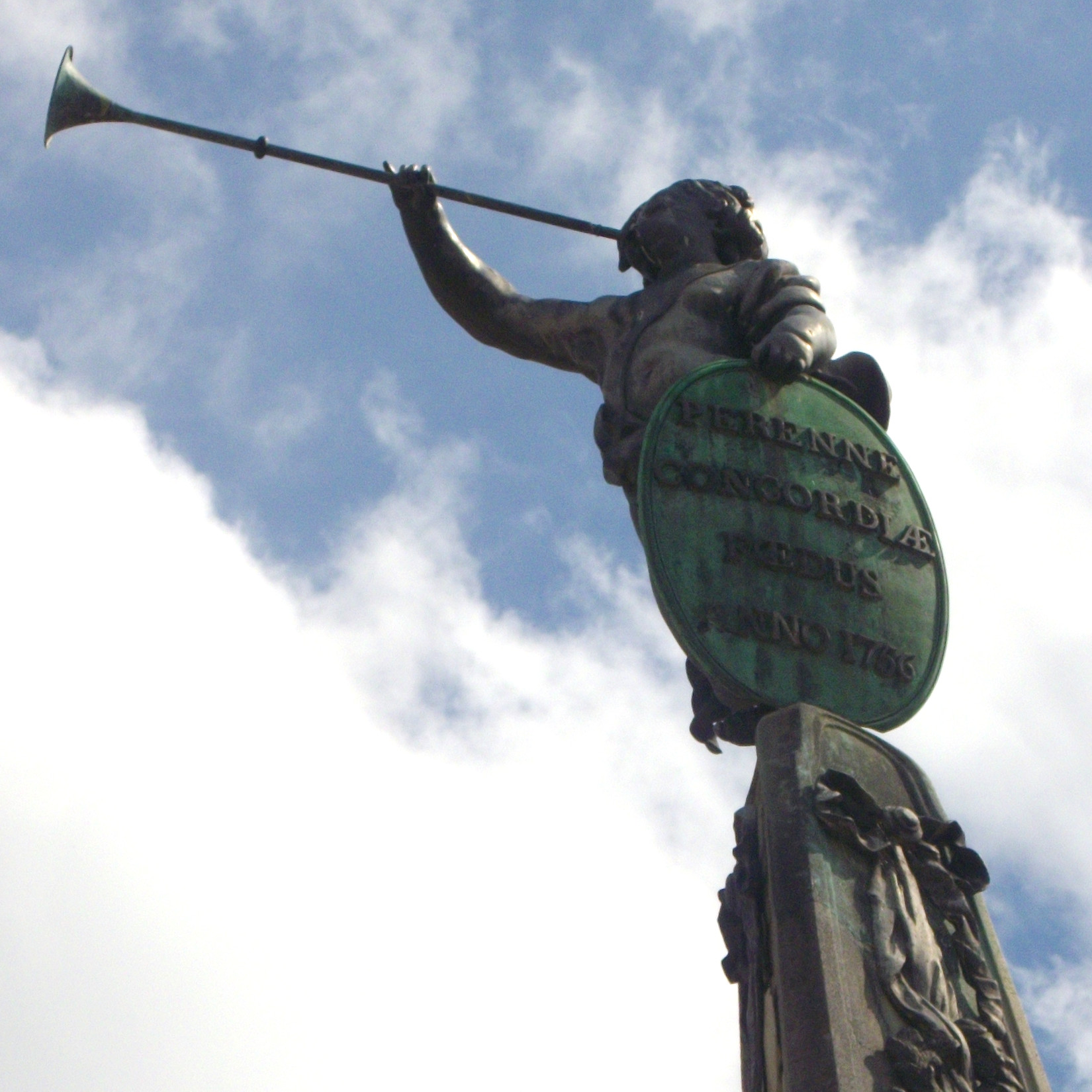 Fountain on Alliance square in Nancy (Meurthe-et-Moselle, France) .